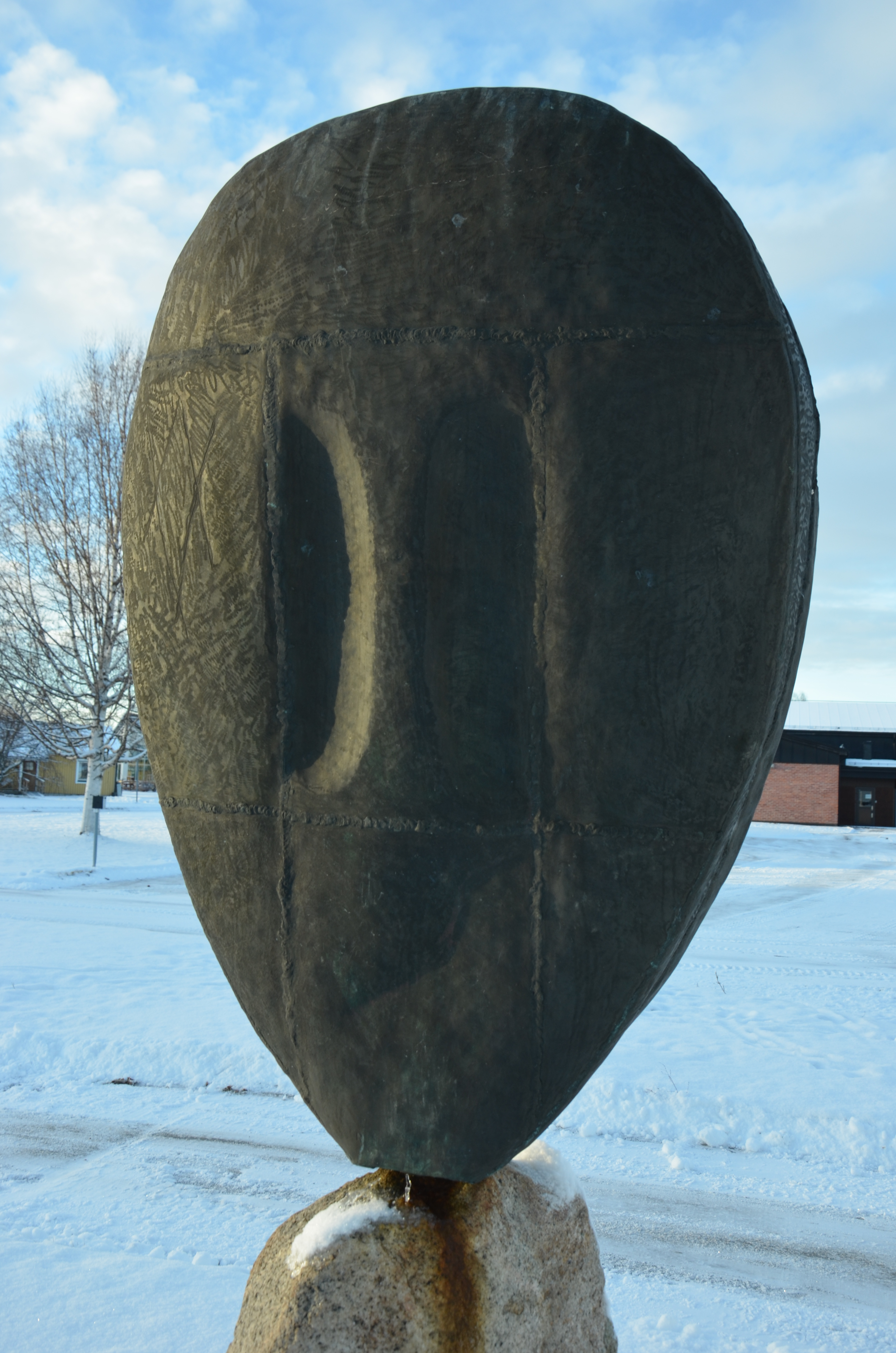 Runo Lettes Spåtrummans tecken i Vuollerim